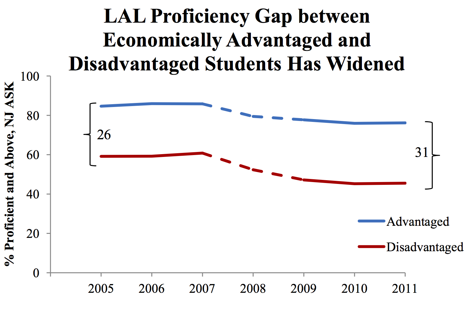 Graph from NJ Department of Education 2012 report on student performance in Abbott School districts. It depicts the gaps in Language Arts Literacy proficiency between "advantaged" and "disadvantaged" students.